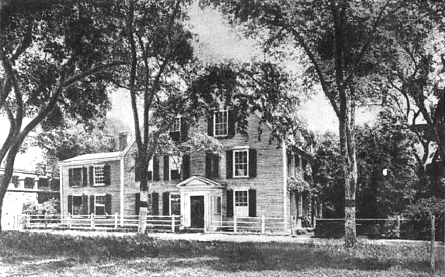 Original title: "The Gambrel-roofed House" Original caption: "Dr. Holmes's birthplace in Cambridge. Built in 1730; torn down after the death of the Doctor's mother inn 1862. It was General Ward's headquarters in the Revolution, and General Warren slept there before the Battle of Bunker Hill."